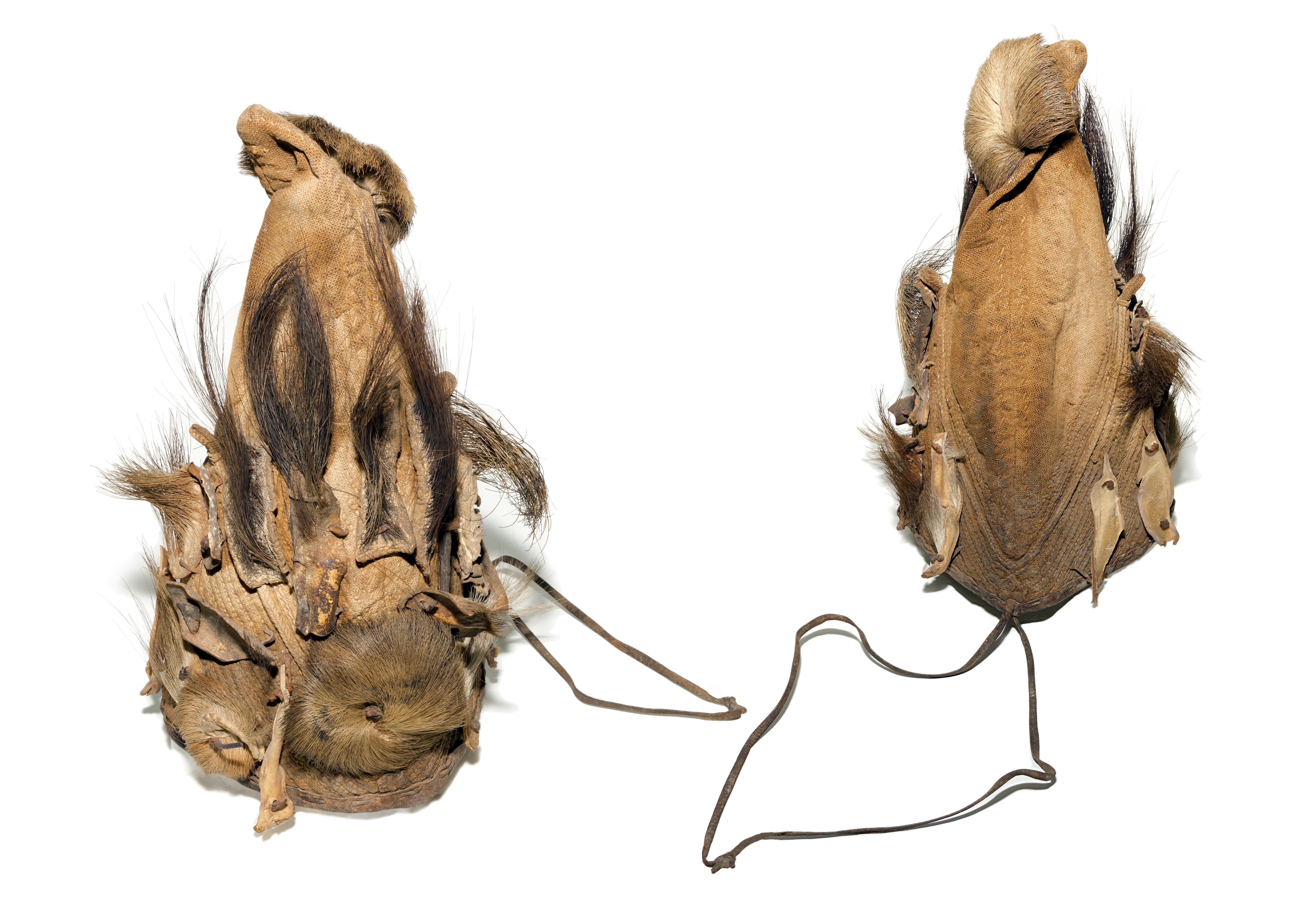 Bonnet ritual - two view of same object Bonnet sacred by wearing all animal material applied (including feline). This type of cap was worn by men in some important rituals (including circumcision) many Bambara initiation societies. Population : Bambara people Mali Materials: Woven cotton, animal material (feline) Size : : 29 x 14 cm